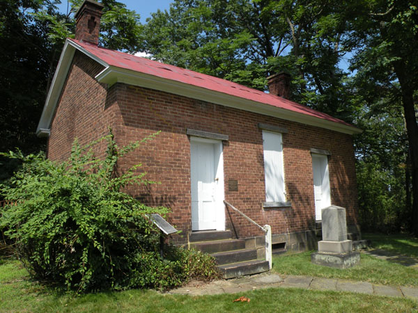 Picture of LeMoyne Crematory located near the junction of Redstone Road and Elm Street in North Franklin Township, Washington County, Pennsylvania, on July 30, 2011. This was the first crematory in the United States. Francis Julius LeMoyne had it built in 1876. Architect: John Dye. The crematory is on the National Register of Historic Places and the Washington County History & Landmarks Foundation's List of Public Landmarks.